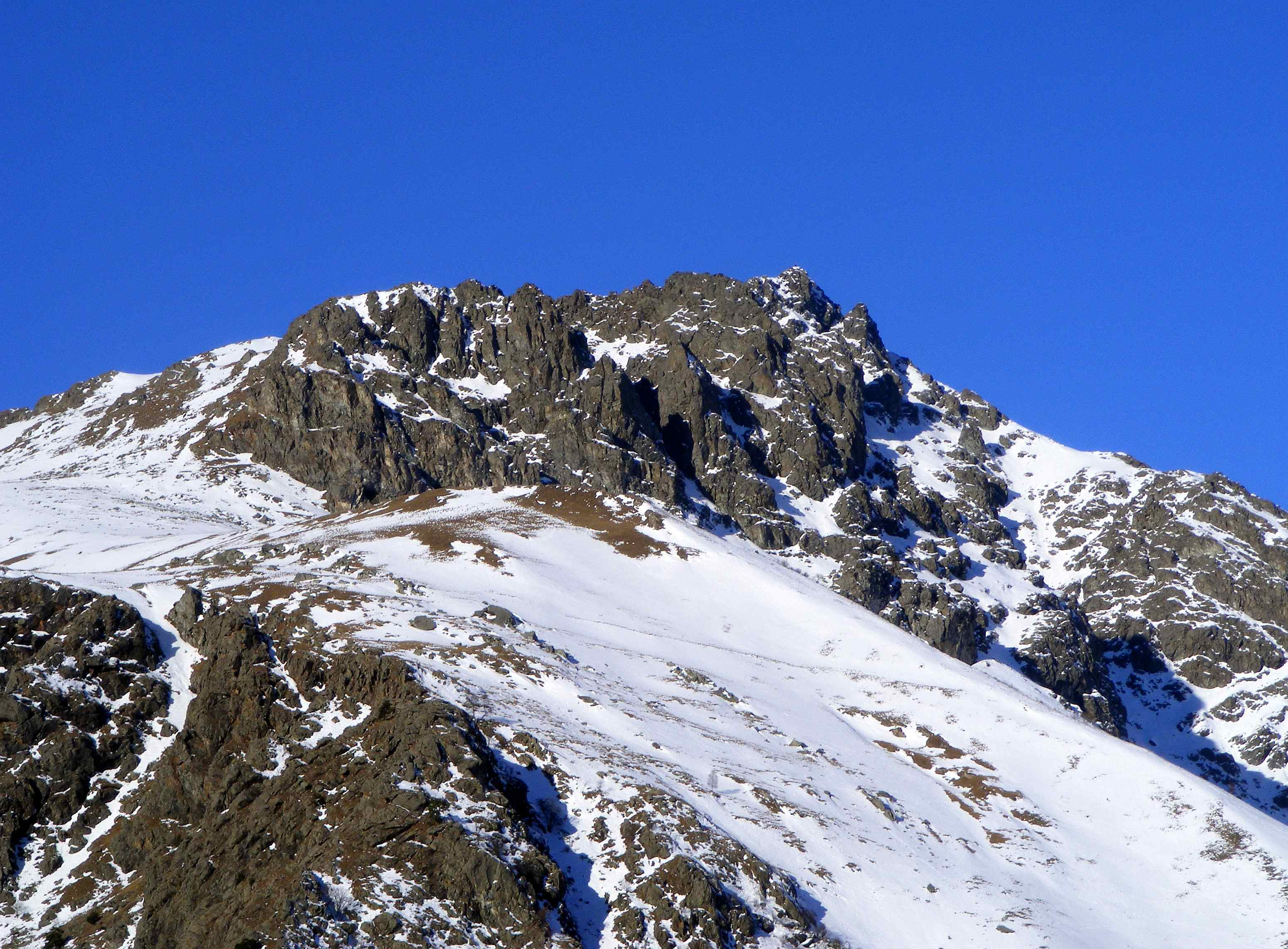 Rocca Patanua (TO, Italy) from truc Censurano (Condove)